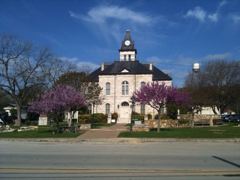 Somervell County Courthouse in Glen Rose.